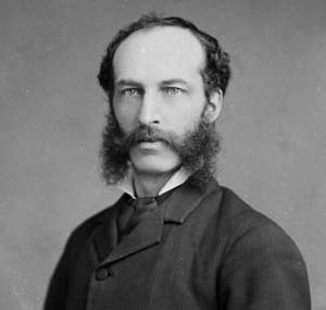 Pierre A. Lamdry, M.P., (Kent, N.B.)